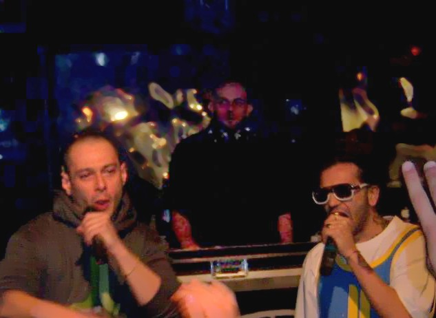 From the left: Fabri Fibra, Fish & Vacca